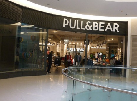 Pull and Bear store on a shopping mall in Santo Domingo